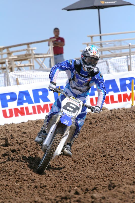 Grant Langston riding for the Yamaha factory team in the 2007 AMA outdoor national opener at Hangtown